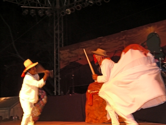 This is a picture of traditional dancing called "El Cortés" wich representes the fight between natives and spaniards conquerors